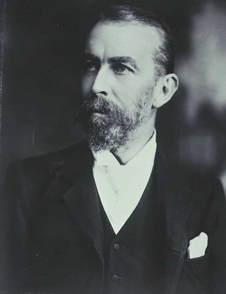 Henry Dobson From the 1898 Australasian Federal Convention Album.